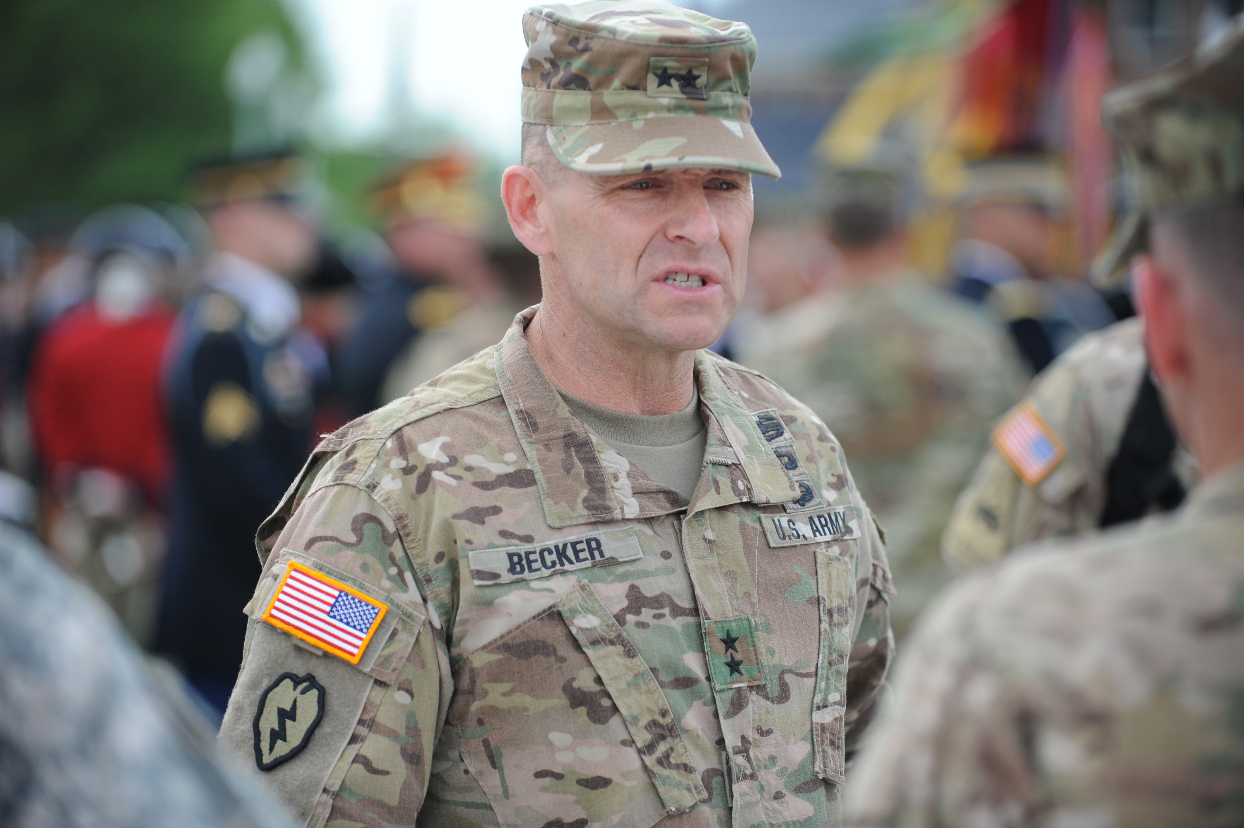 Army Major Gen. Bradley A. Becker, Commanding General, Military District of Washington, reviews the soldiers from the 3rd U.S. Infantry Regiment (The Old Guard) as they stand in formation prior to the start of Twilight Tattoo 2016 Media Preview Day at Summerall Field, Joint Base Myer-Henderson Hall, Virginia. Twilight Tattoo, presented on behalf of the U.S. Army, is a fast paced journey that captures 241 years of Soldiers’ stories spanning across generations of men and women who have answered the call to uphold America’s freedom and democracy. The program showcases The Old Guard’s Continental Color Guard, The Commander-in-Chief’s Guard, The U.S. Army’s Old Guard Fife and Drum Corps, U.S. Army Drill Team, Presidential Salute Guns Battery, Caisson Platoon, and The U.S. Army Band “Pershing’s Own”. (Department of Defense photo by Marvin Lynchard)